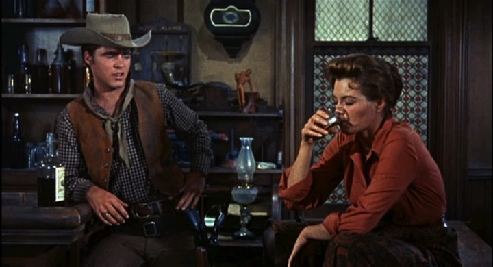 Cropped screenshot of Ricky Nelson and Angie Dickinson from the trailer for the film Rio Bravo